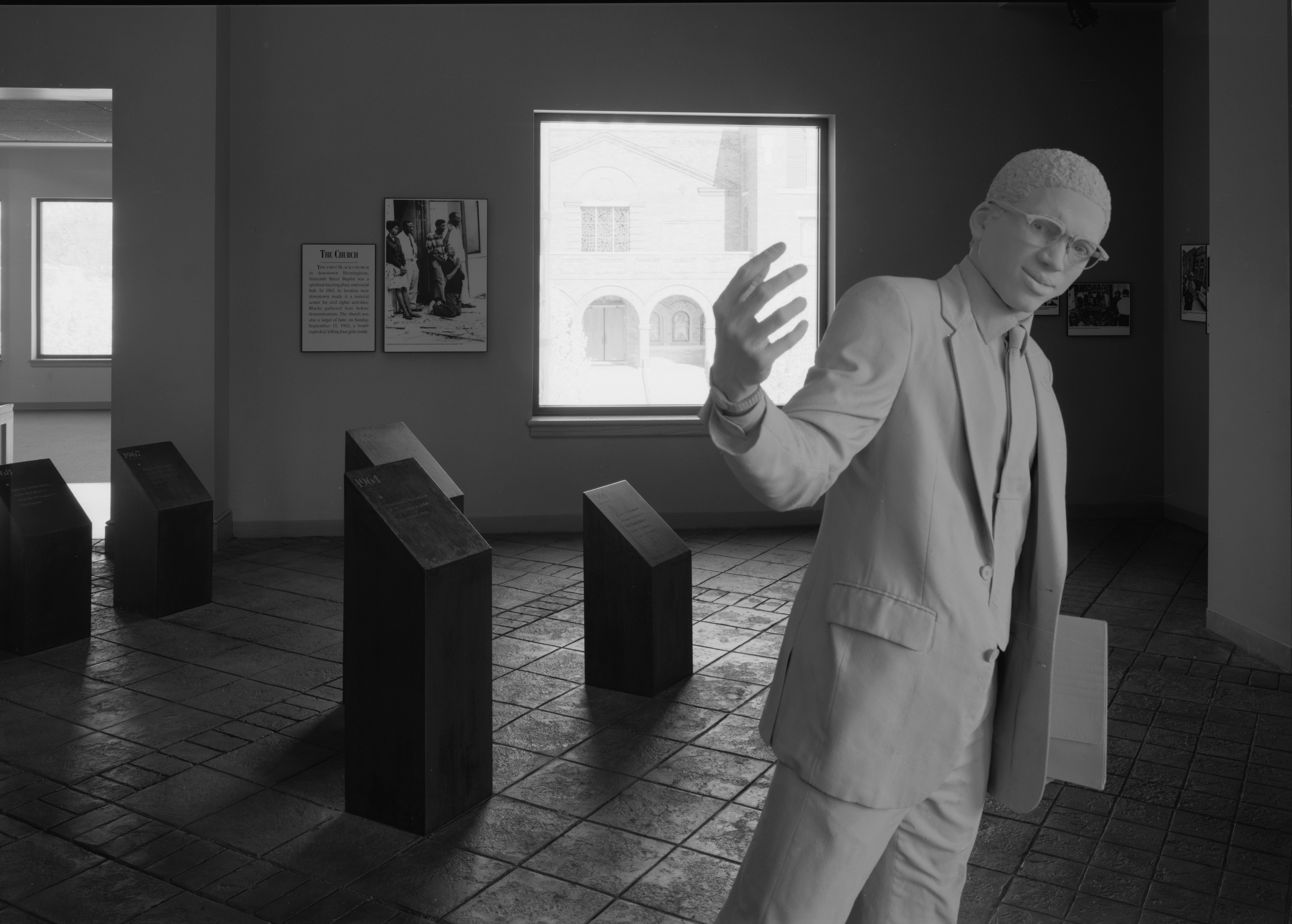 The 16th Street Baptist Church section of the Milestone exhibition gallery in the Birmingham Civil Rights Institute, in Birmingham, Alabama. The church was bombed in 1963.